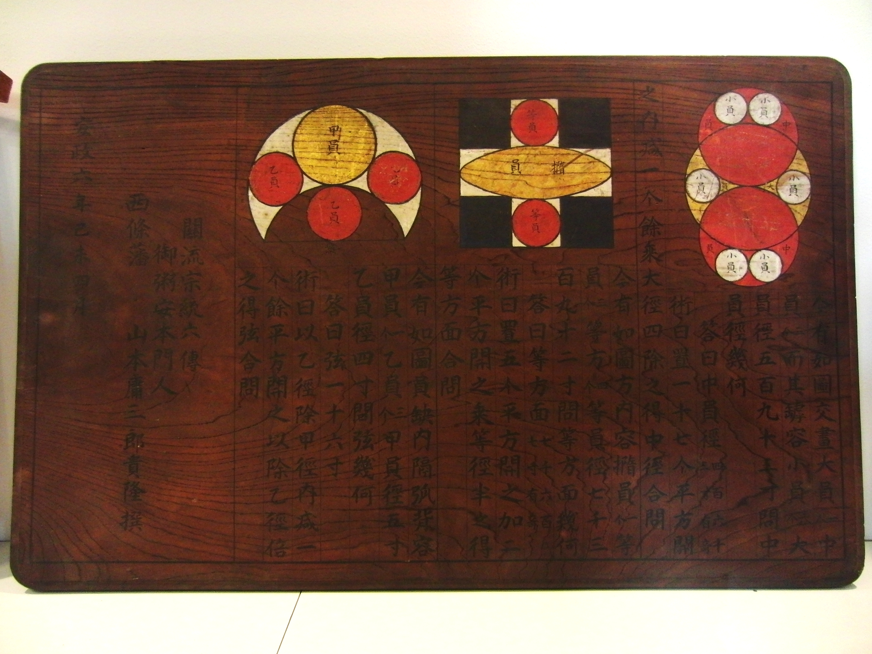 Sangaku of Konnoh Hachimangu Shrine, Shibuya, Tokyo, Japan. Tangible Folk Cultural Properties of Shibuya ward. This Sangaku was dedicated in 1859.